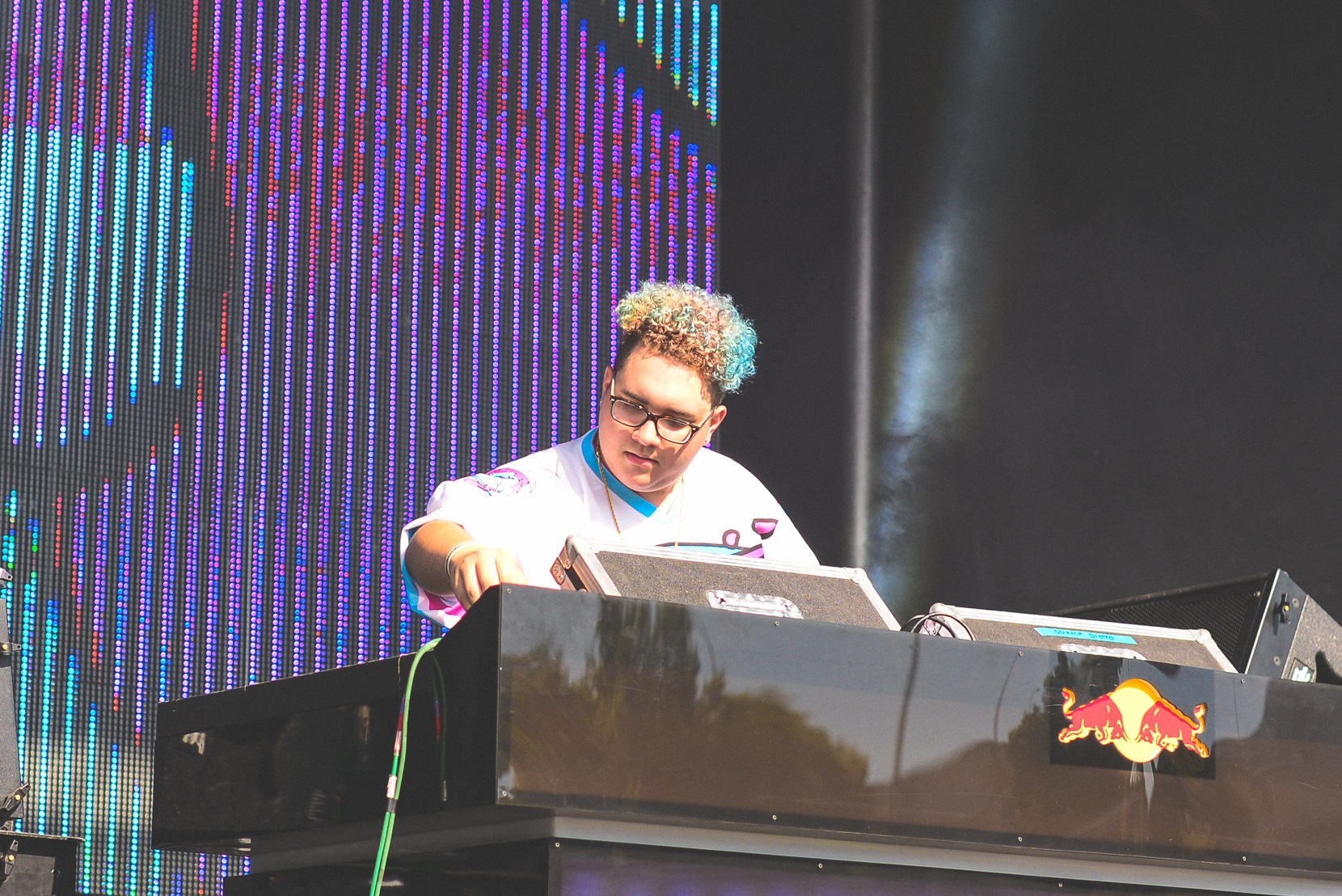 Slushii performing at the Mad Decent Block Party in Fort York Garrison Commons on August 19th, 2016